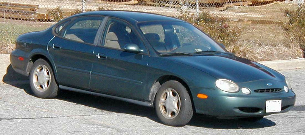 1996-1997 Ford Taurus photographed in USA.